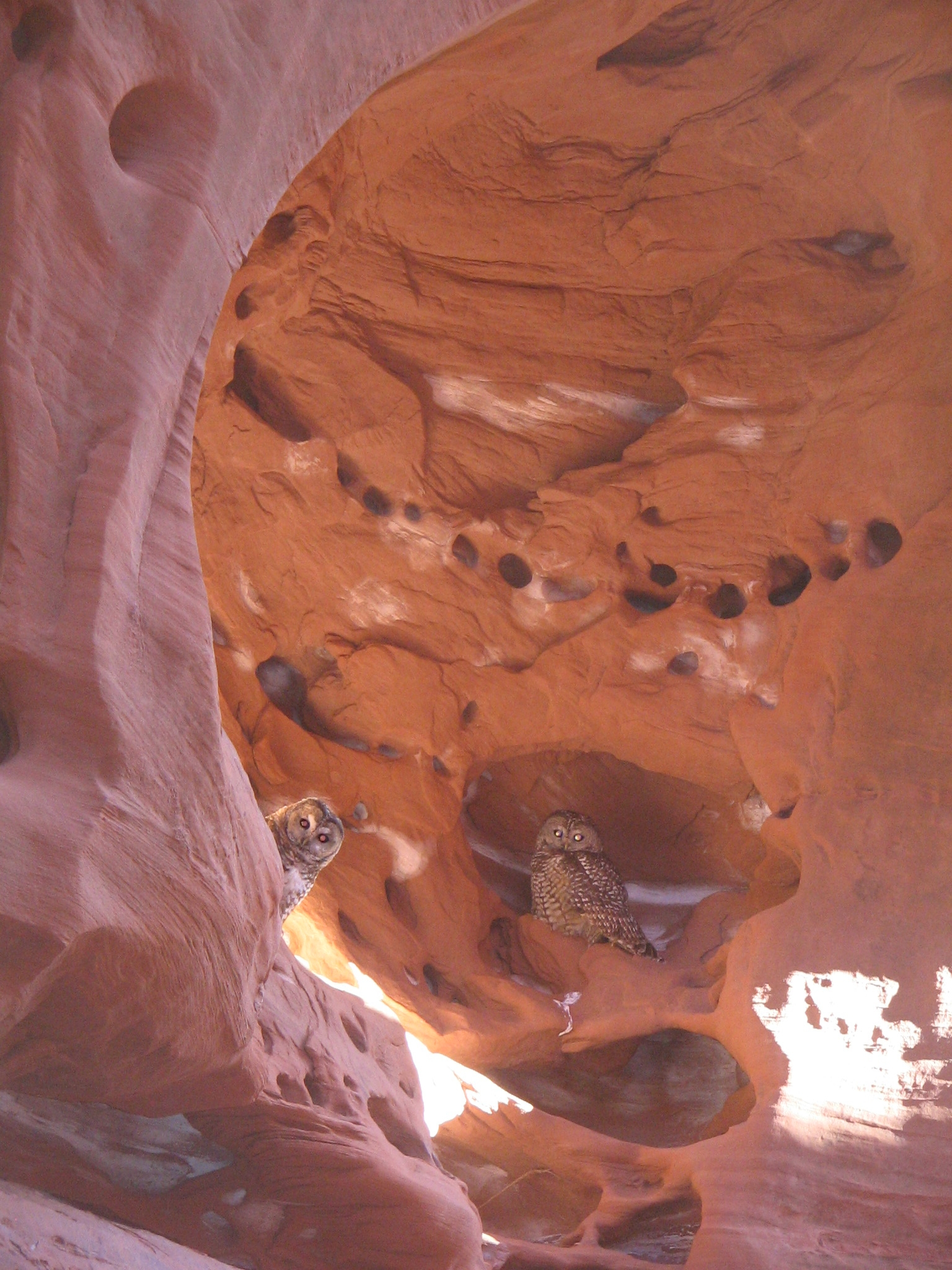 Mexican Spotted Owls Strix occidentalis lucida rest in a canyon in Utah. Owls are found in canyon habitat dominated by vertical-walled rocky cliffs within complex watersheds, including tributary-side canyons. Rock walls with caves, ledges, and other areas provide protected nest and roost sites. These owls are listed as threatened. Credit: Amie Smith